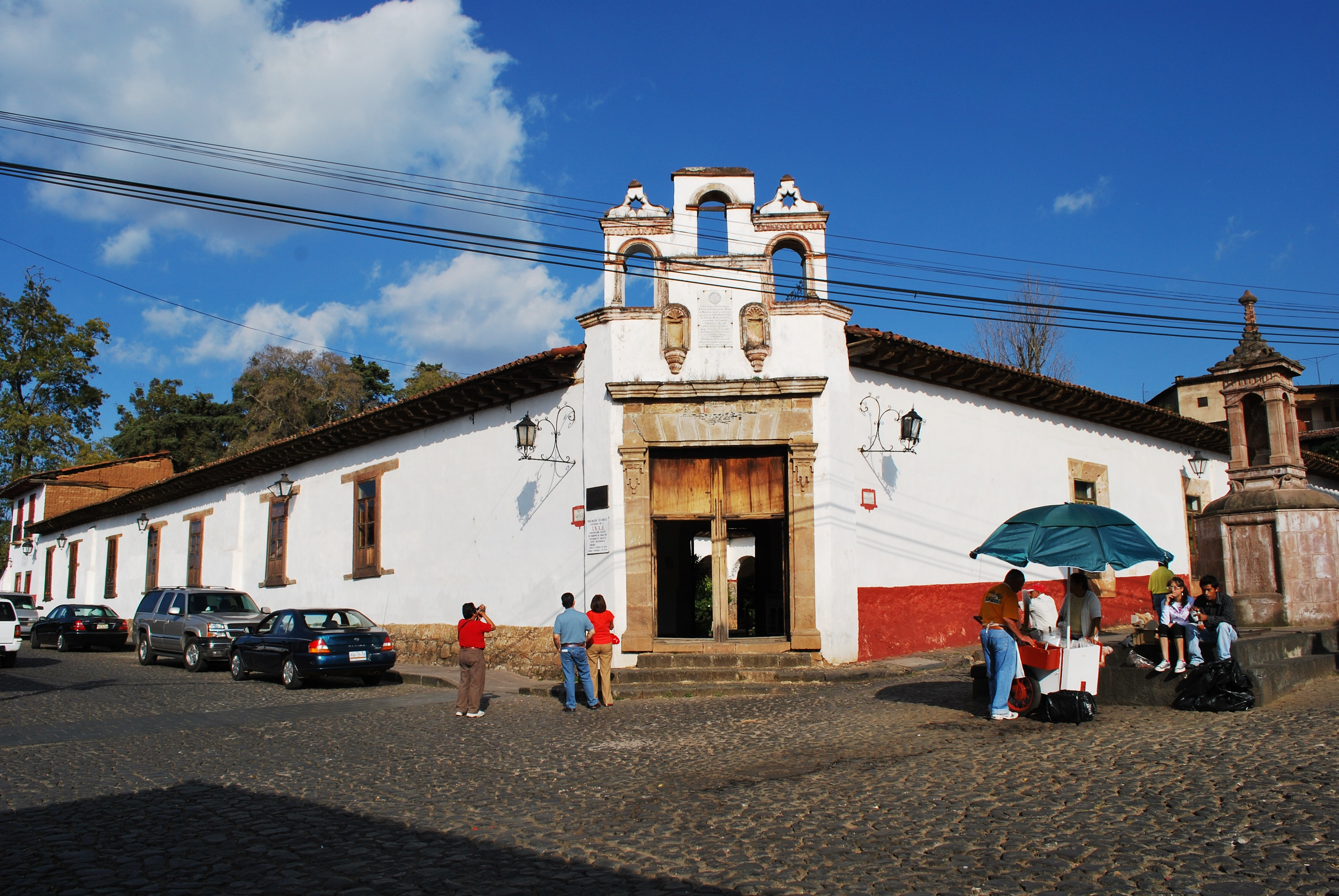 Museo de Artes Populares in Patcuaro, Michoacan